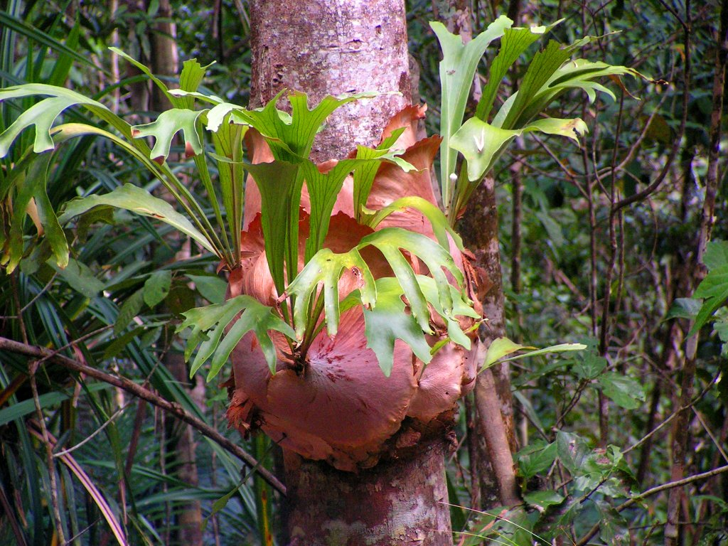 Elkhorn Fern (Platycerium bifurcatum), near Kuranda, Queesland, Australia